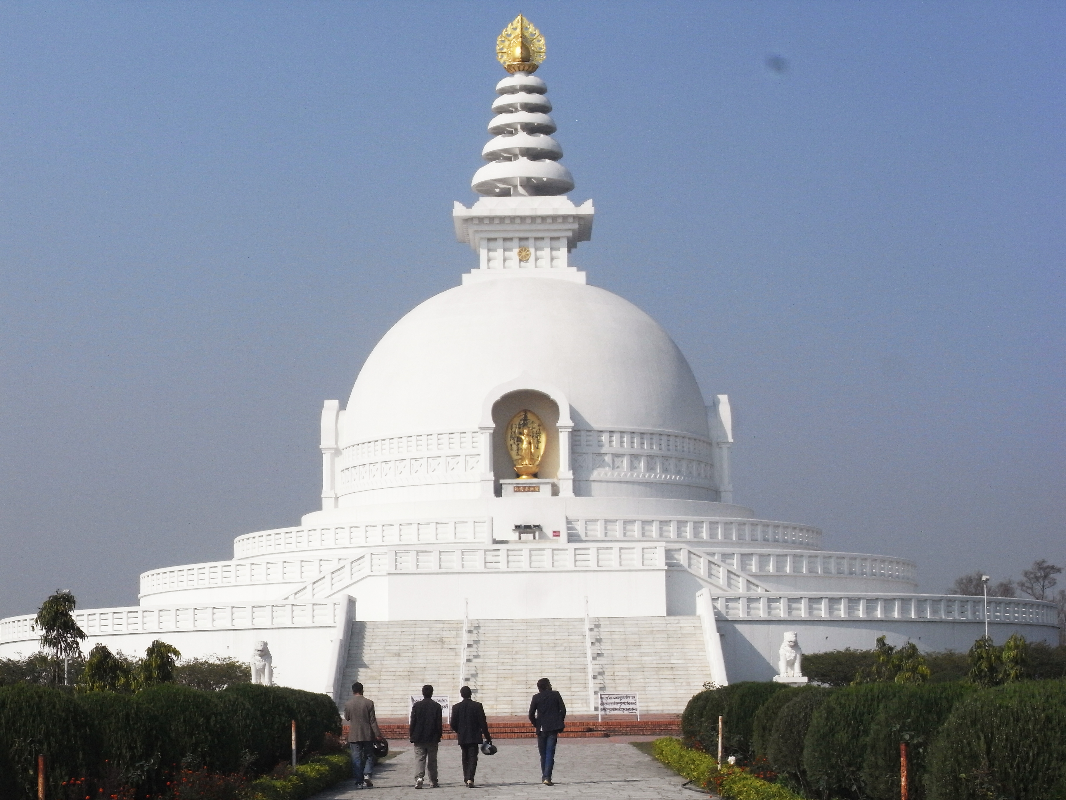 Stupa at Lumbini